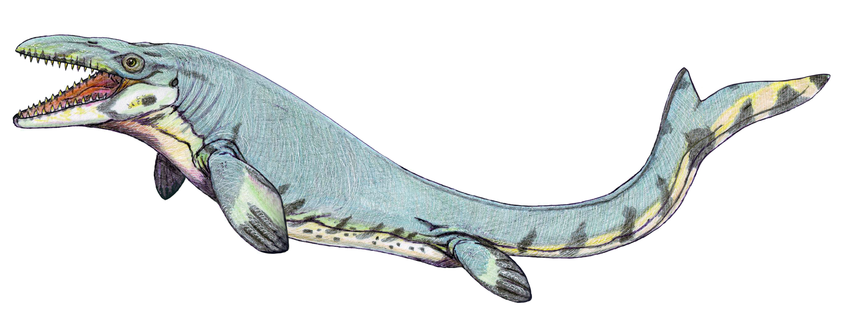 Mosasaurus beaugei - from Late Campanian-Early Maastrichtian of Morocco